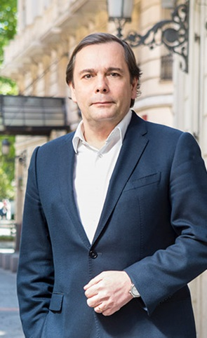 Gonzalez Federico at Event